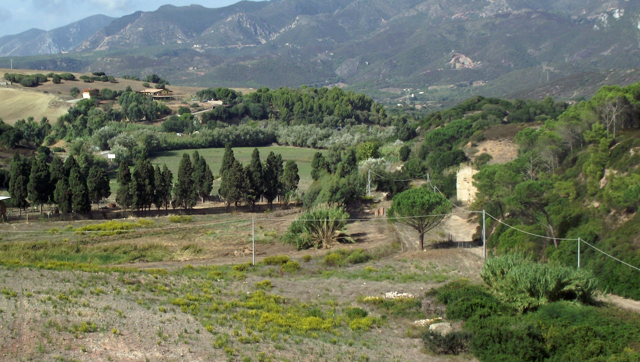 View of the former train station of Bacu Abis, Carbonia, Sardinia, Italy